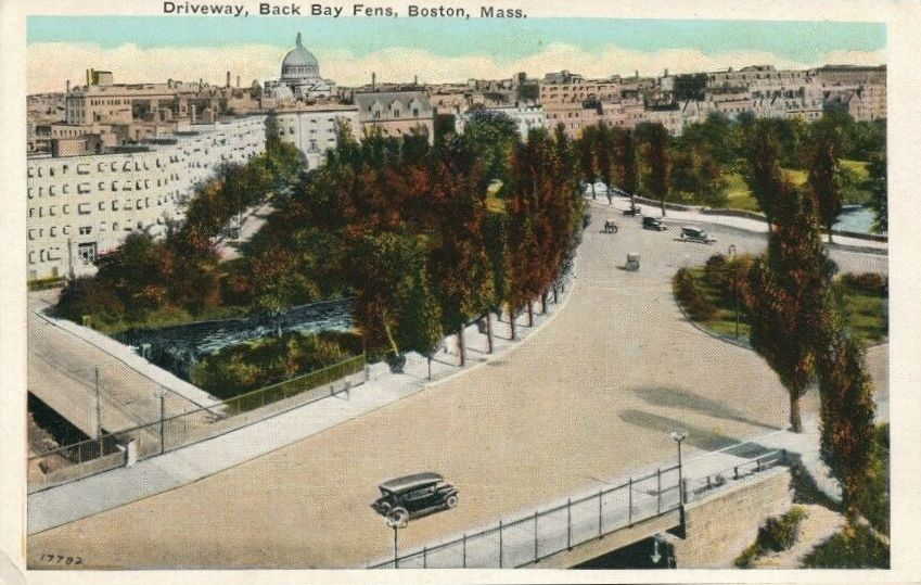 Early white border postcard of the Charlesgate bridge at the entrance to the Back Bay Fens